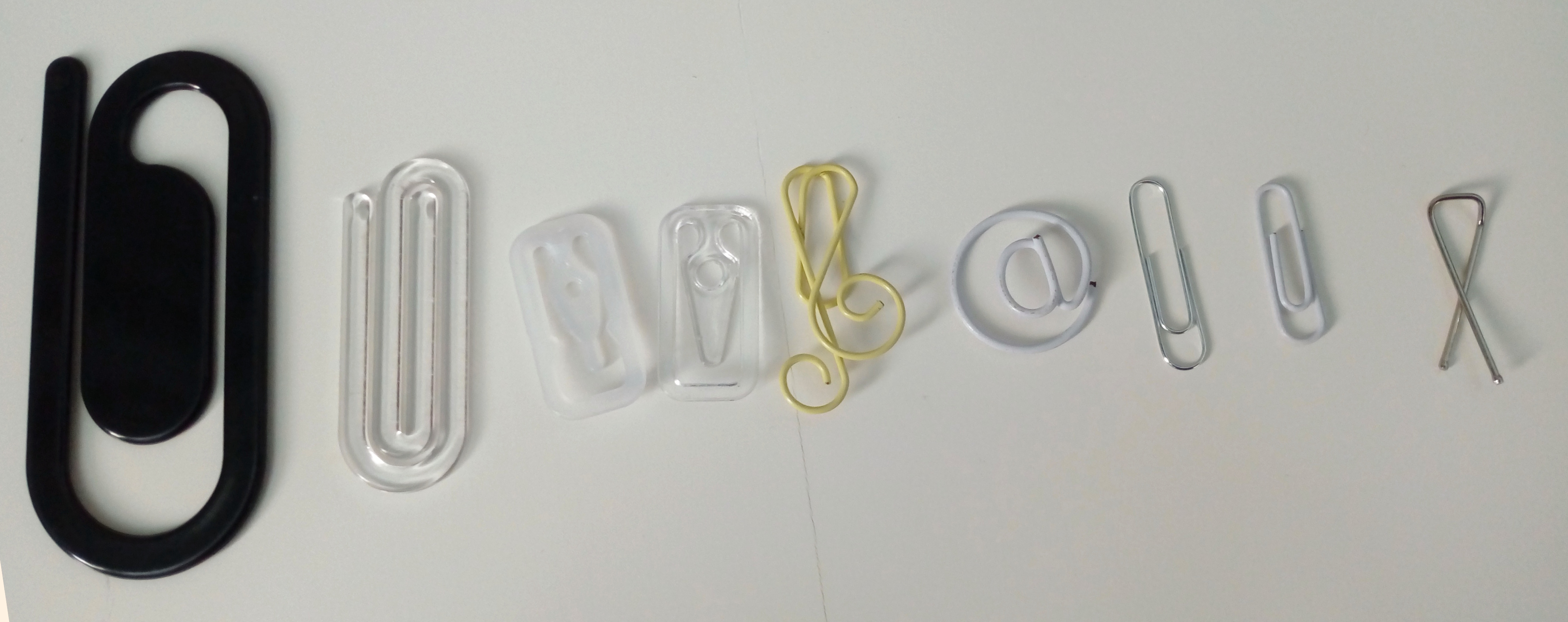 Various paperclip designs.